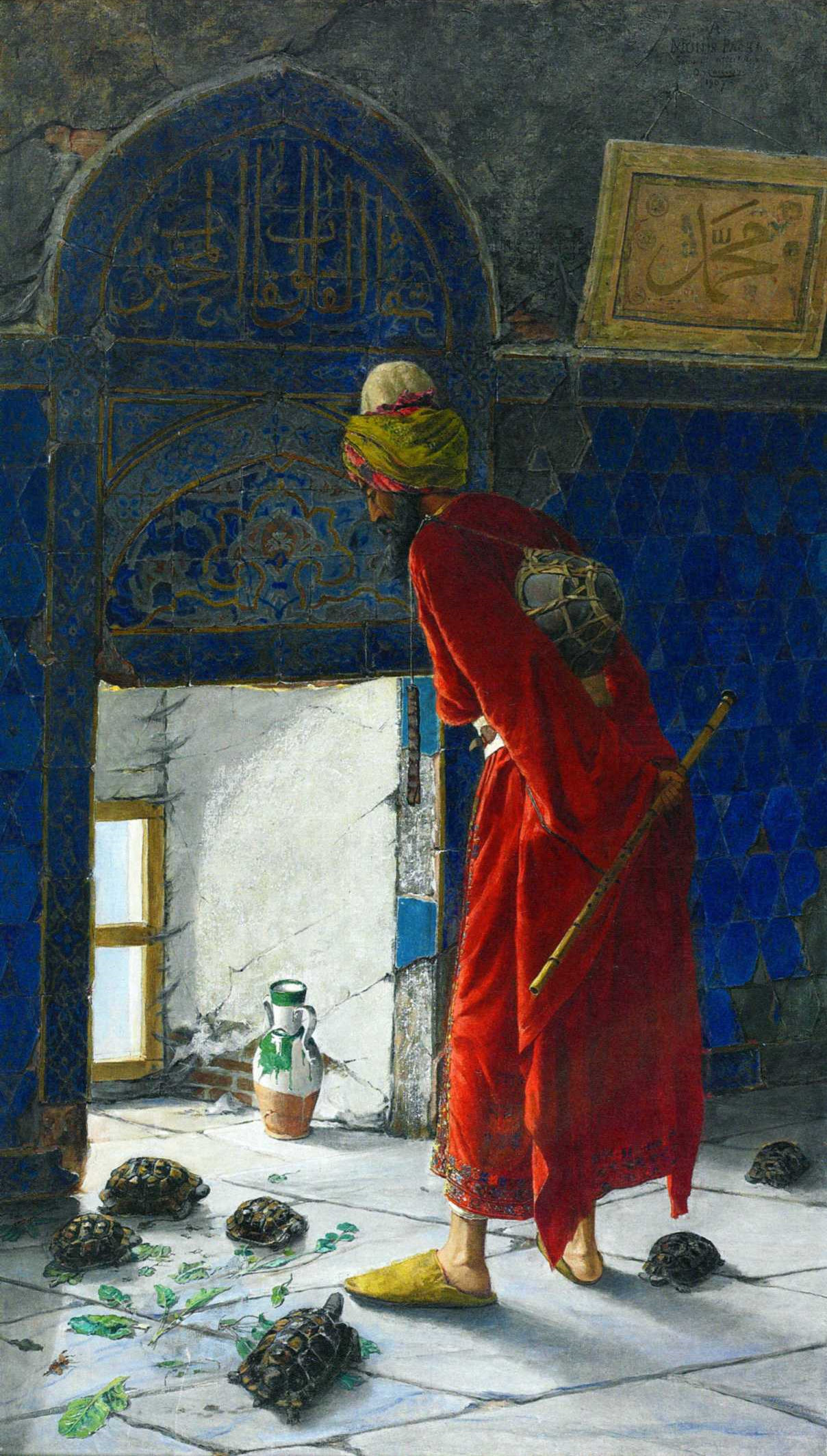 Tortoise Trainer, second version; oil on canvas, 136 x 87 cm.